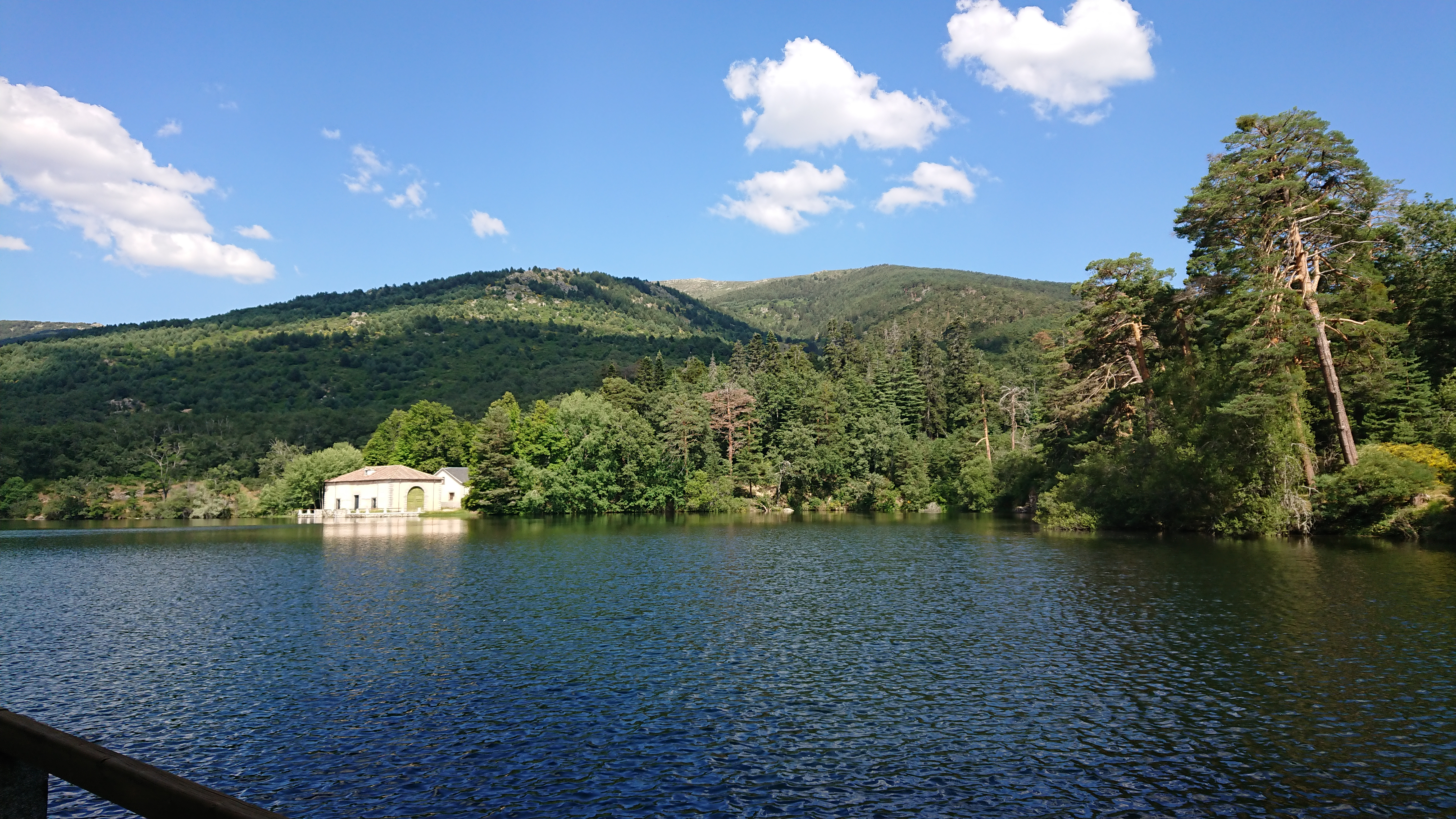 El Mar (The Sea), Royal Palace of La granja de San Ildefonso, Segovia (Spain)